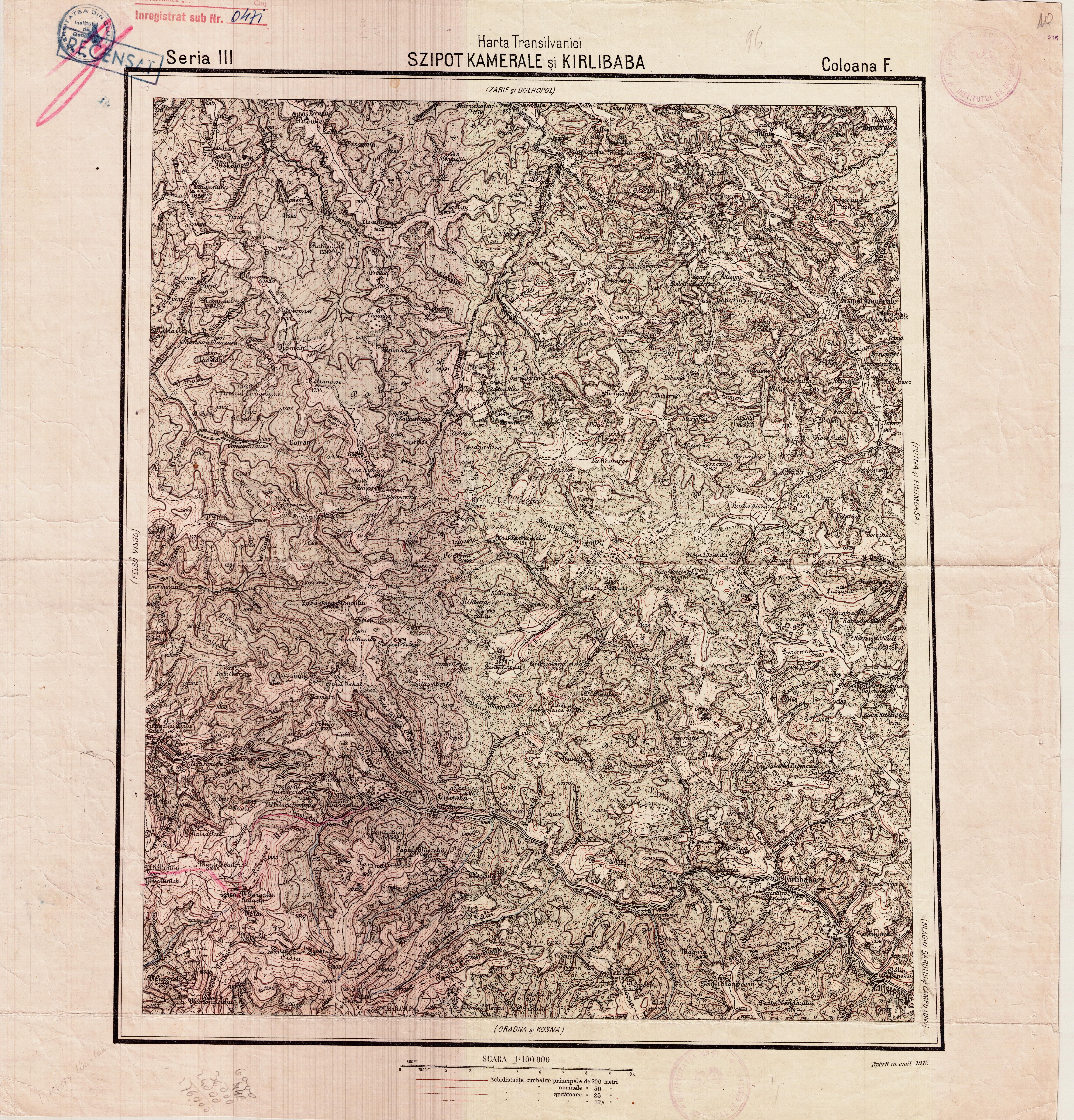 Romanian Masterplan Şiptoele-Sucevei - Cârlibaba, under "Bonne two-zones" (1870-1921) projection system